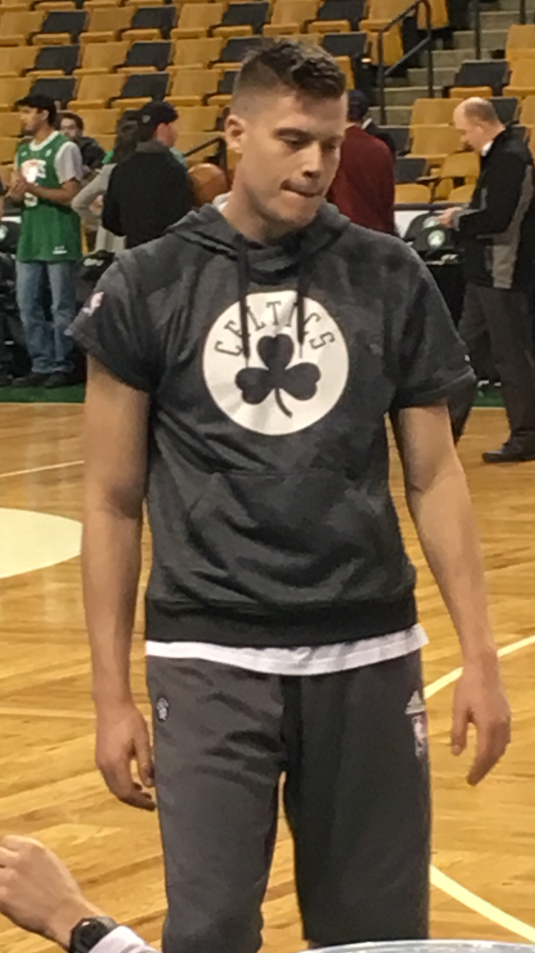 Jerebko with the Celtics on 12/2/16